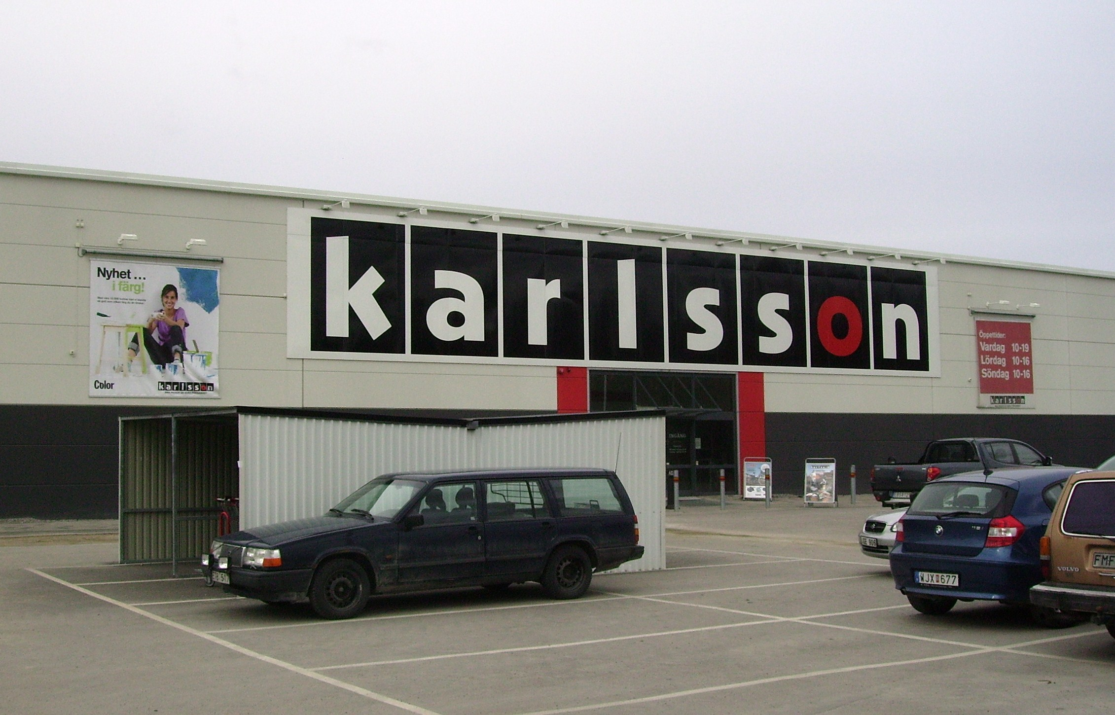 Picture of Karlssons Varuhus in Strängnäs